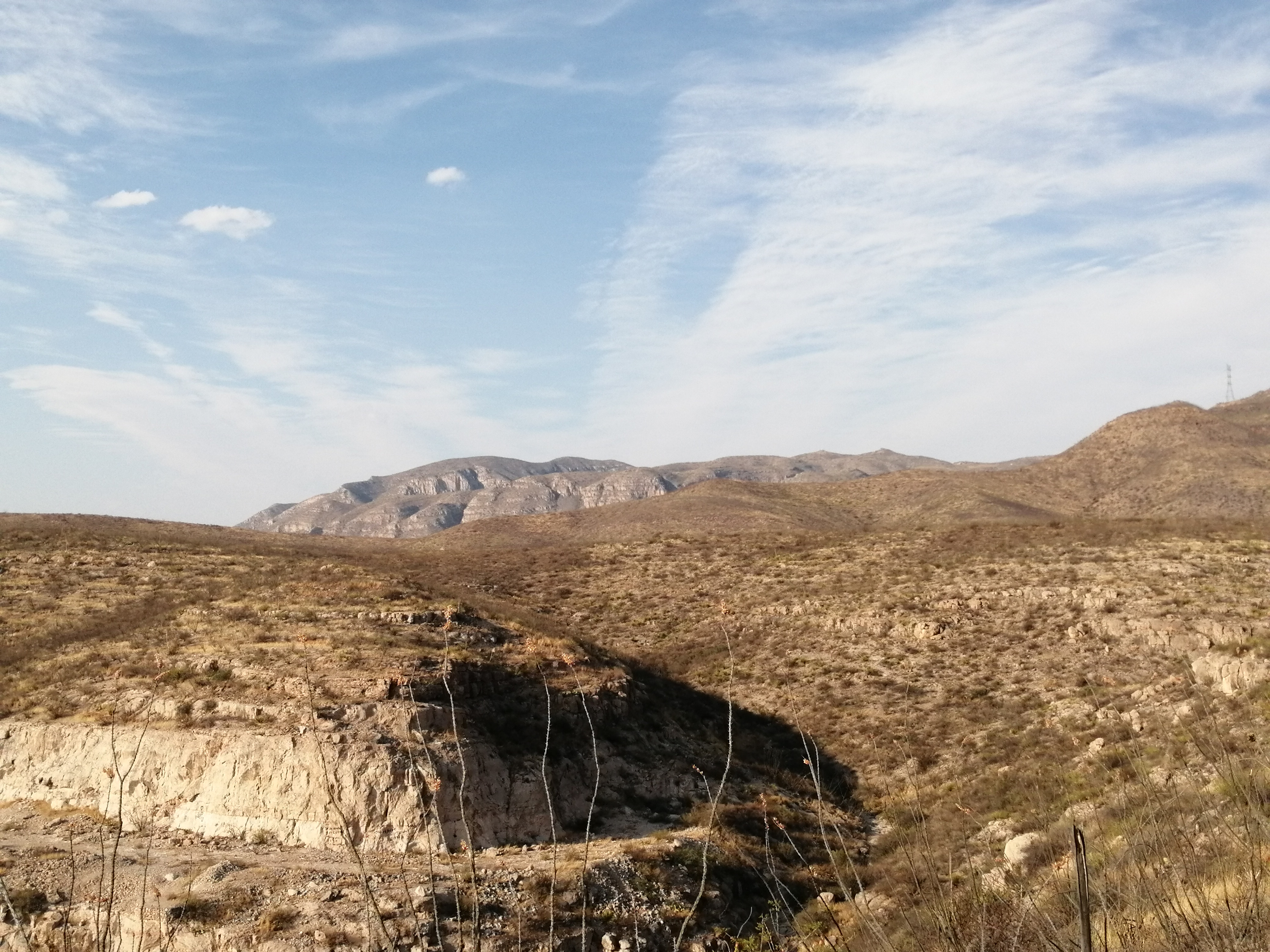 The Sierra de Santo Domingo, Limestone mountains of Finlay Formation in Aquiles Serdán Municipality near Chihuahua City.[1]==References== ↑ a b Martínez-Reza, Leví Bernardo; Monroy Becerril, Gustavo; Cárdenas, Ángel; Ortíz-Gómez, Gabriel A. (2019). "Análisis preliminar de la paleobiota y geología de la Formación Aurora en el área metropolitana de la ciudad de Chihuahua." Número especial 5: XVI Congreso Nacional de Paleontología. Chihuahua 2019. Volumen: Núm. 5 (2019) Carteles. pp. 111